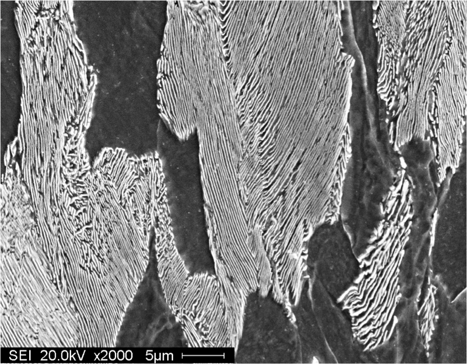 Secondary electron image of a polished and etched section of a steel helical gear. Microstructure consists of pearlite in a ferrite matrix. Etched in 3% nital. 2000X.